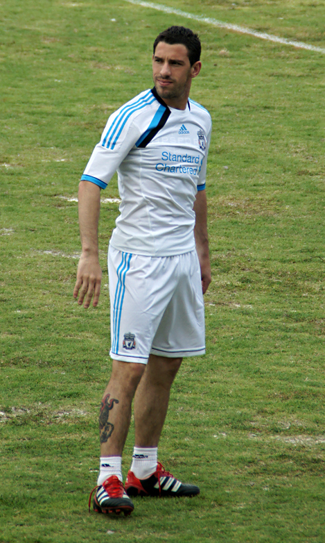 Argentinian football player, Maxi Rodríguez, during Liverpool FC pre-season training in Singapore.